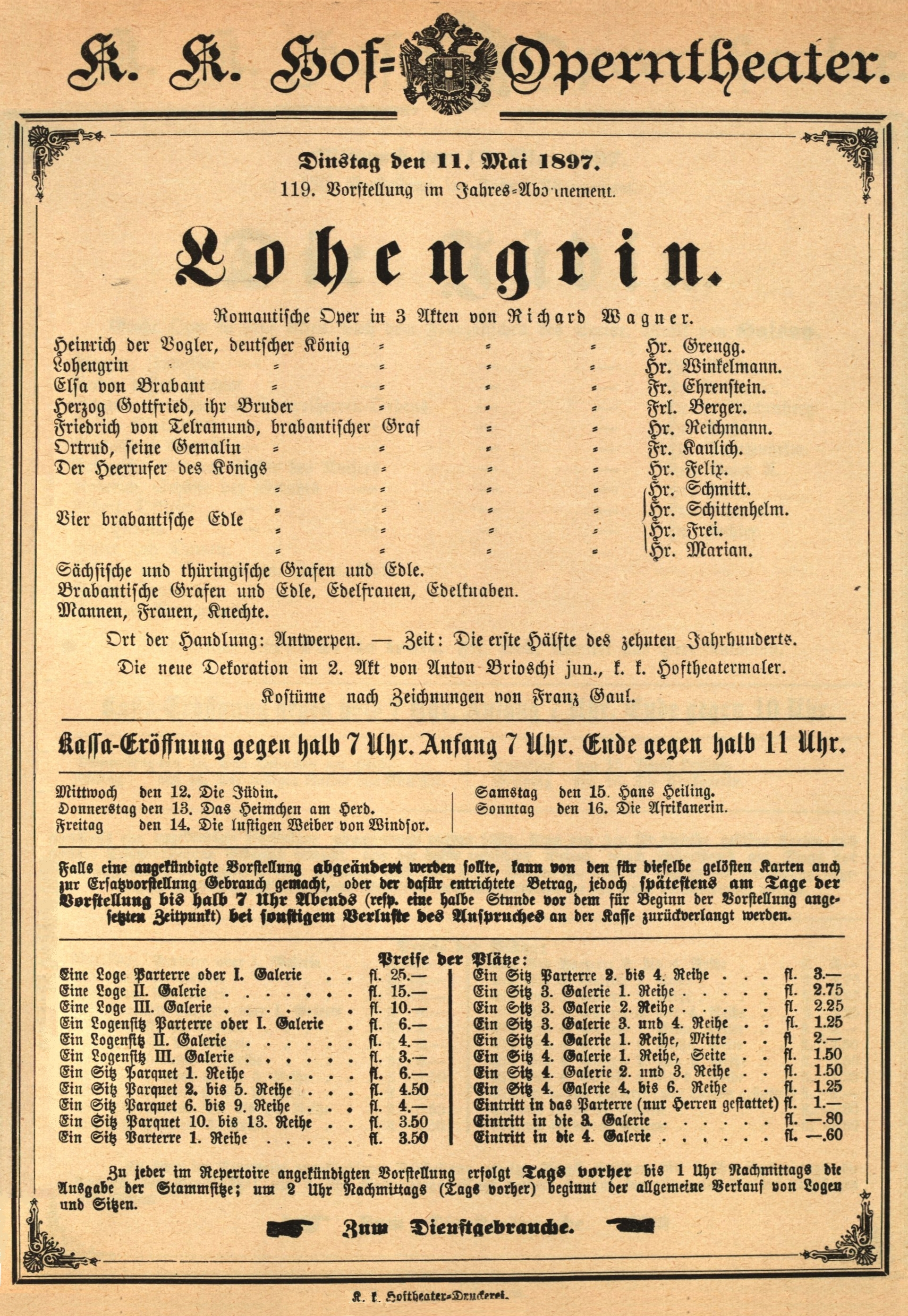 Play bill for the K. K. Hofoperntheater on May 11, 1897; announcing the performance of Lohengrin. The conductor was Gustav Mahler, who performed for the first time at the opera house.